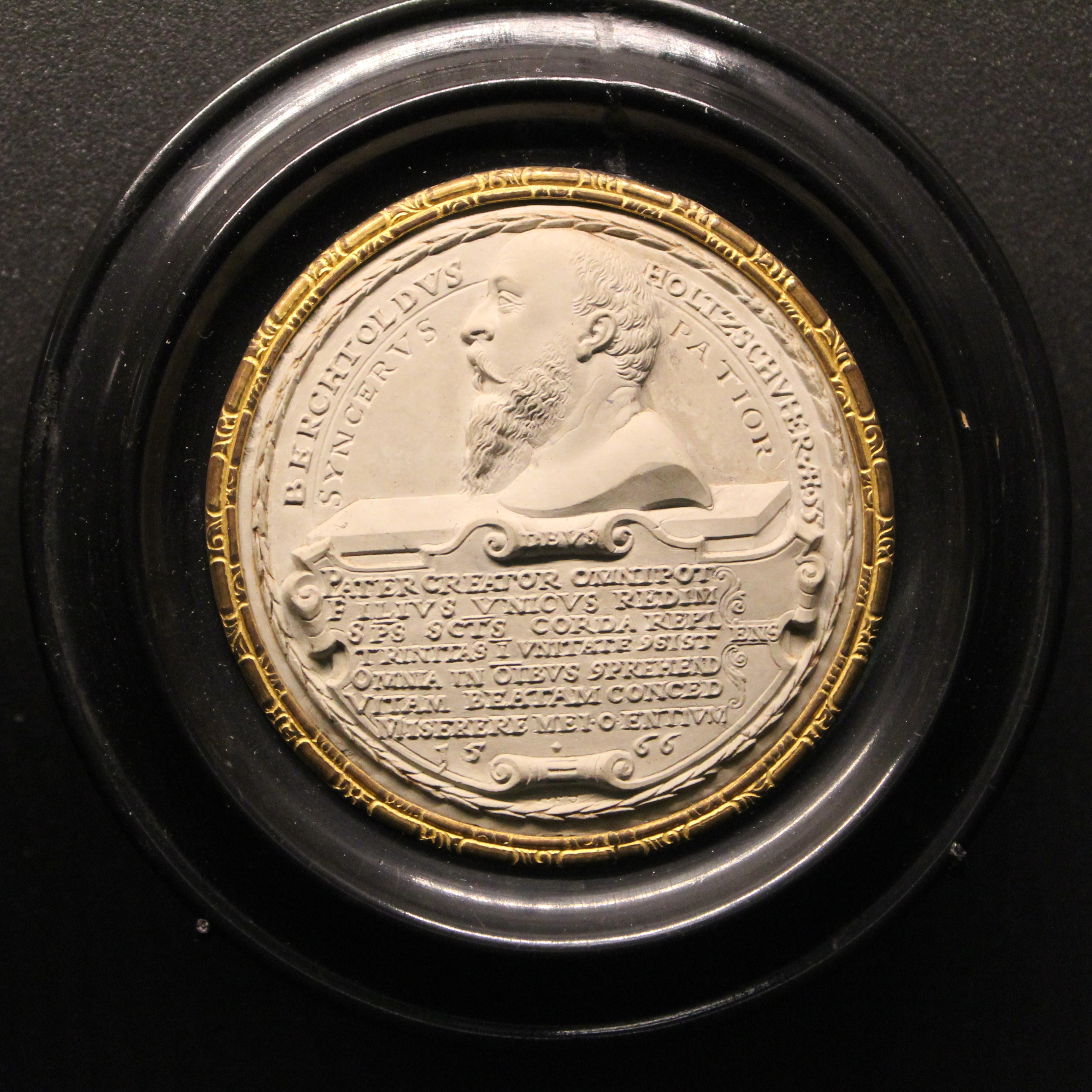 Waddesdon bequest. With thanks to the British Museum for allowing photographs